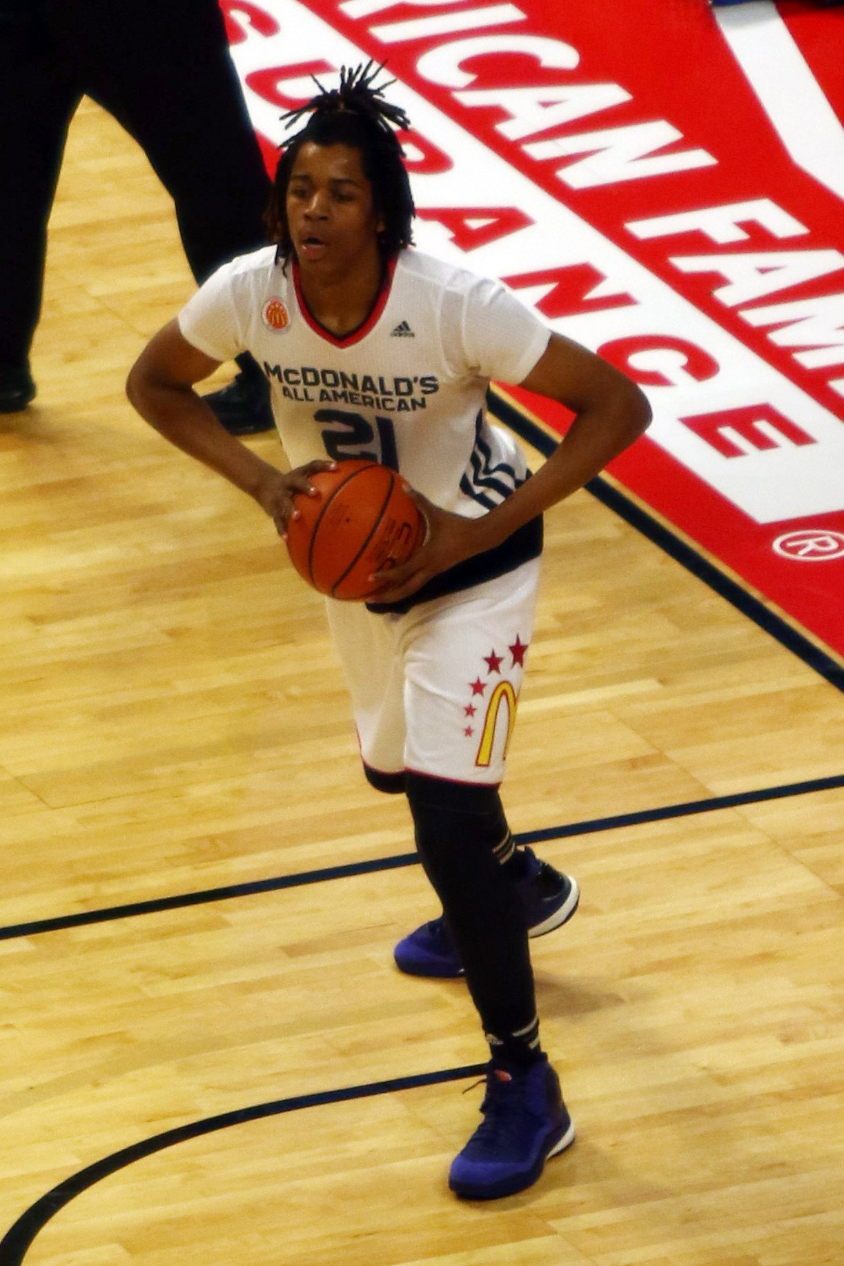 Deyonta Davis in the w:2015 McDonald's All-American Boys Game